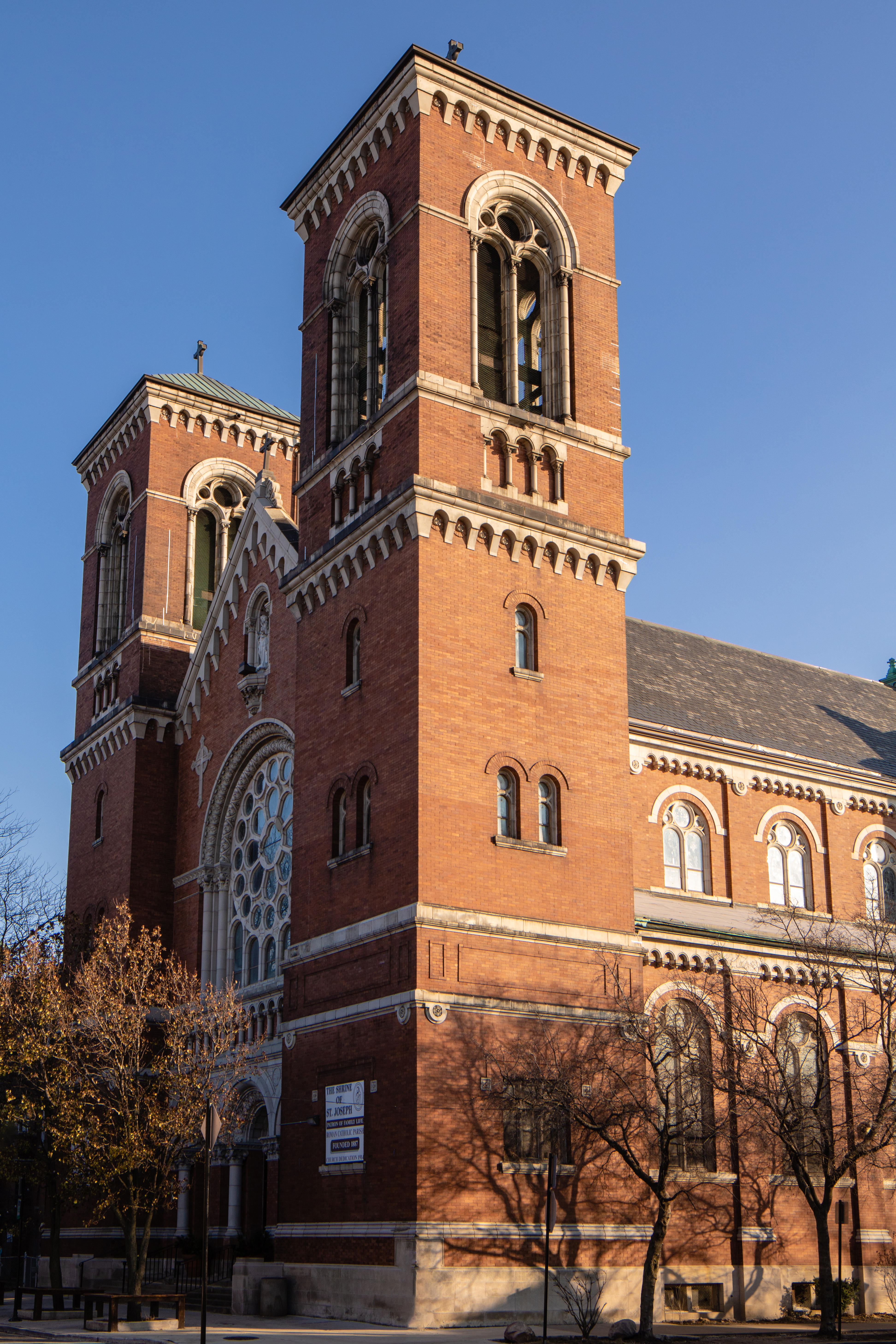 St. Joseph Roman Catholic Church, Chicago, Illinois.